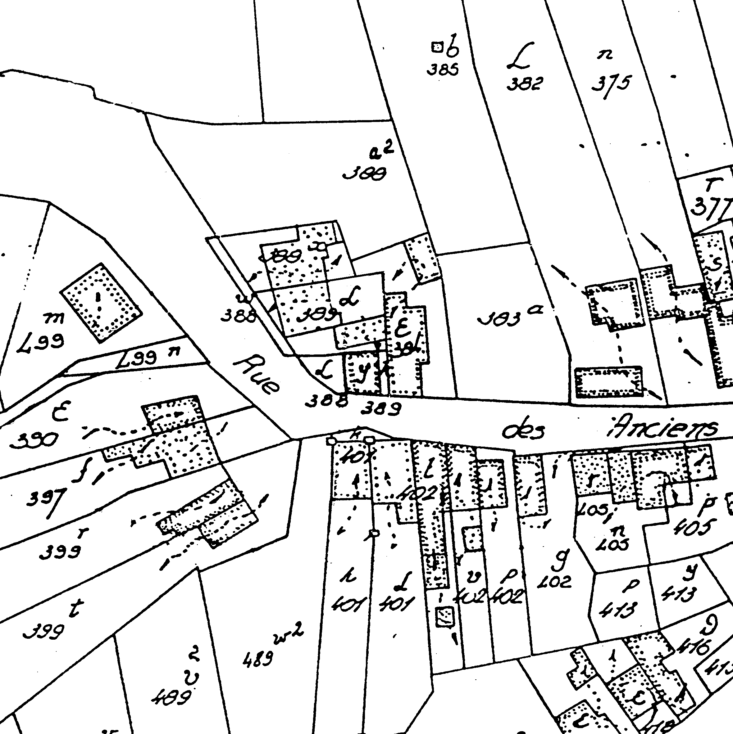 Parcelle Cadastrale